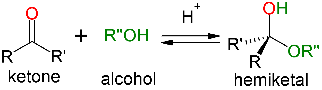 Hemiketal_formation